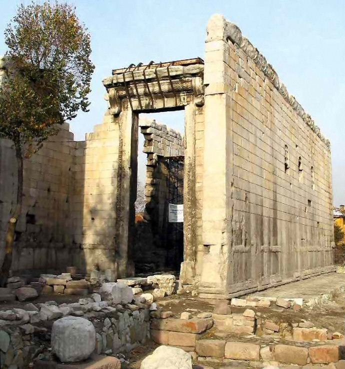 A view of the remnants of the Temple of Augustus in Ankara, Turkey (Monumentum Ancyranum). Photo taken by AtilimGunesBaydin on November 28, 2004.